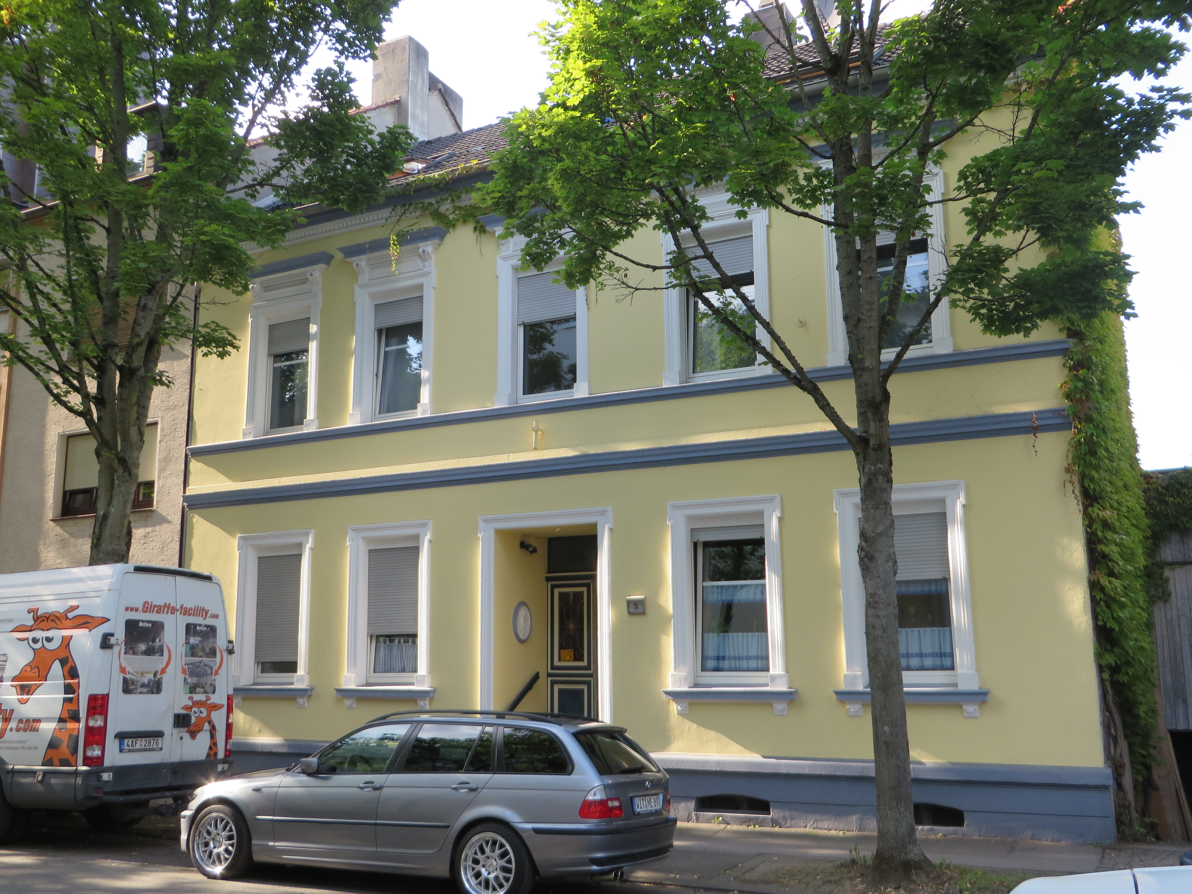 House Kreisstraße 3 in Witten, Germany